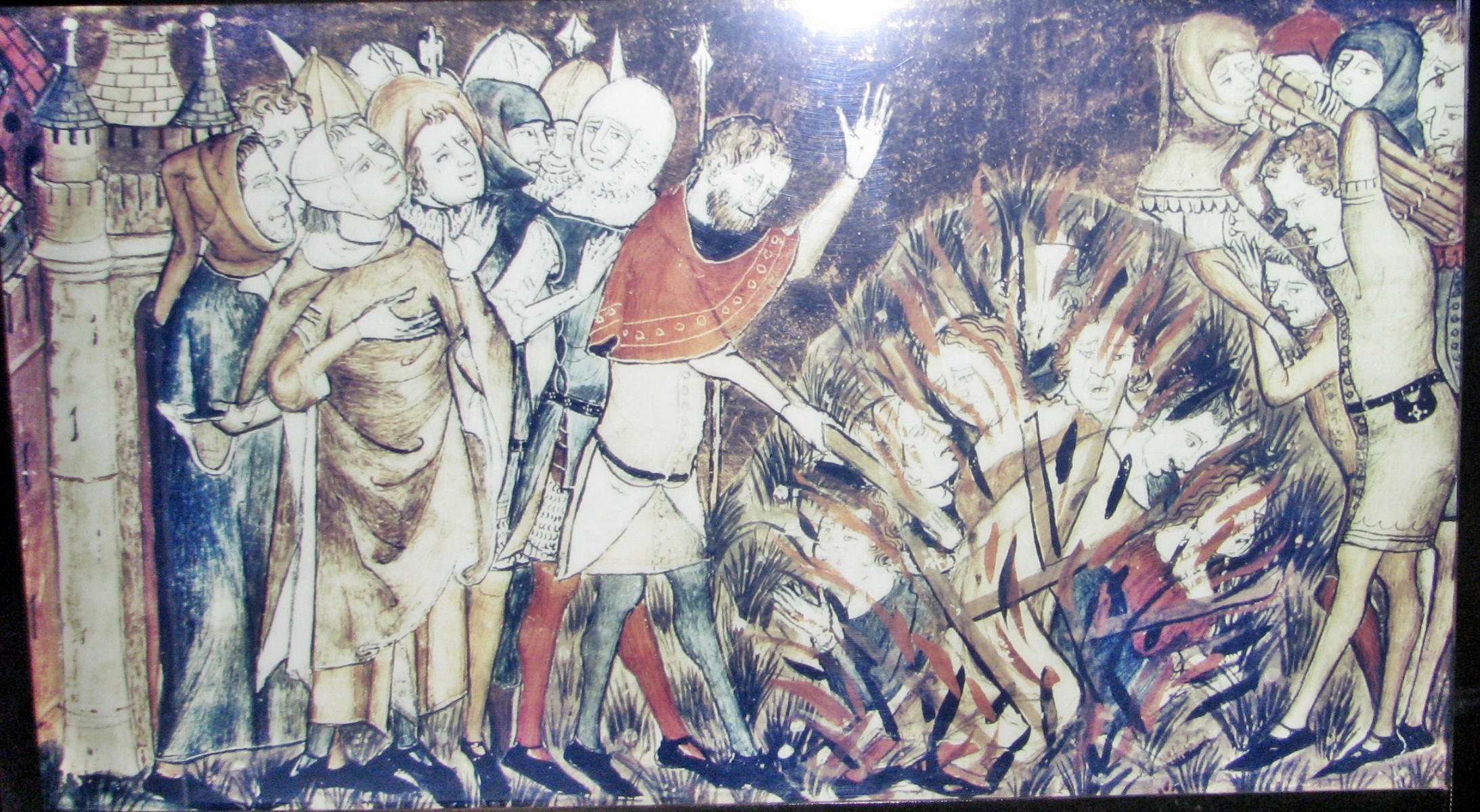 Exhibit depicting a miniature from a 14th century Belgium manuscript at the Diaspora Museum, Tel Aviv - Beit Hatefutsot. The museum note says "Jews being burned at the stake, Miniature from manuscript, Belgium, 14th century". (Photo was taken by User:Sodabottle)